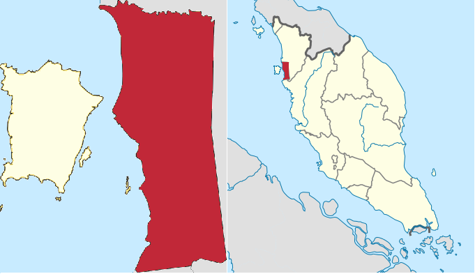 Seberang Perai (red) in Penang and West Malaysia (to be used in Seberang Perai infobox)